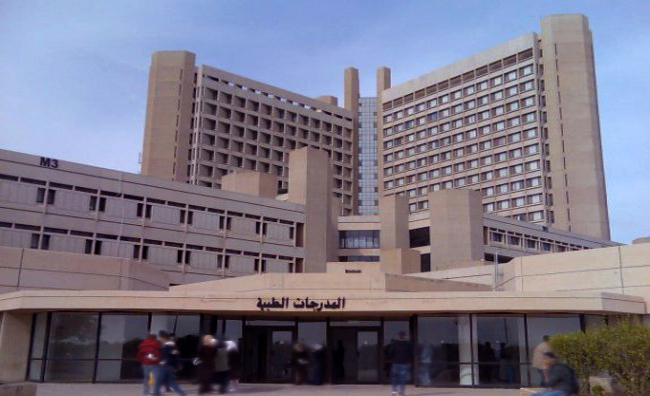 Medical halls of Jordan University of Science and Technology with King Abdullah University Hospital showing in the background.